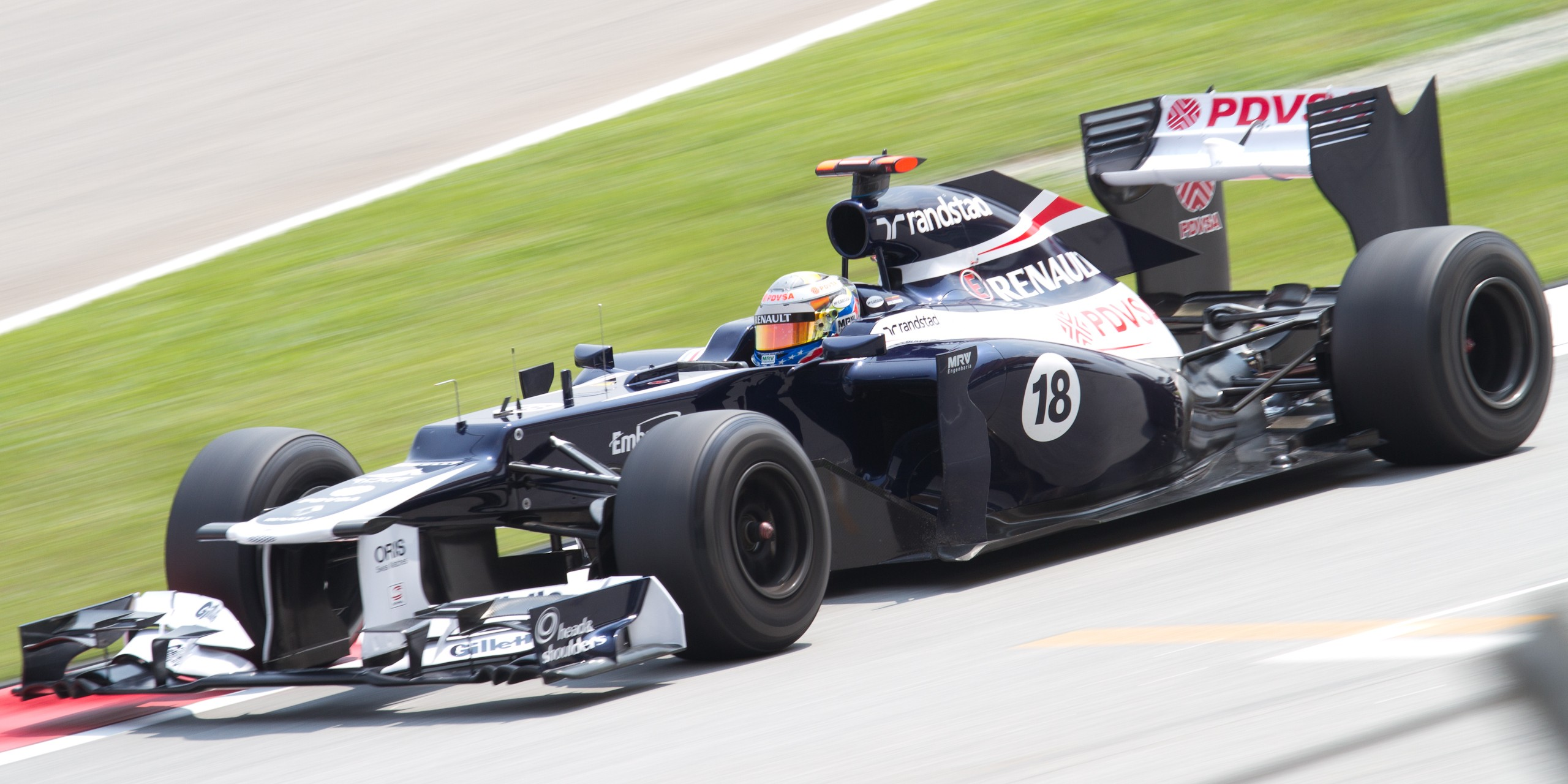 Formula One 2012 Rd.2 Malaysian GP: Pastor Maldonado (Williams) during the first practice session on Friday.